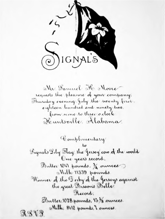 After Lilly Flagg had been recognized as the top butter producer in 1892, Owner Samuel H. Moore saw fit to throw a party in her honor, complete with electric lights!